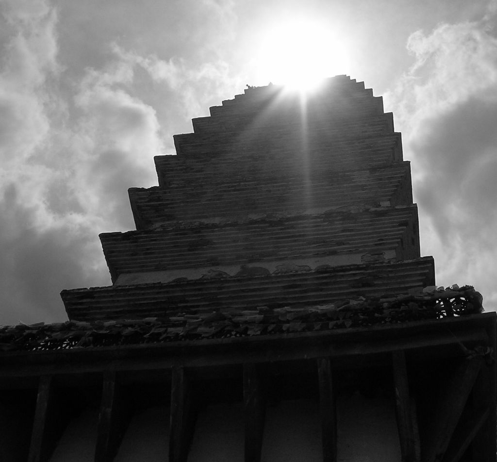 Jinding Temple (Golden Summit Temple) at the top of Jizu Mountain